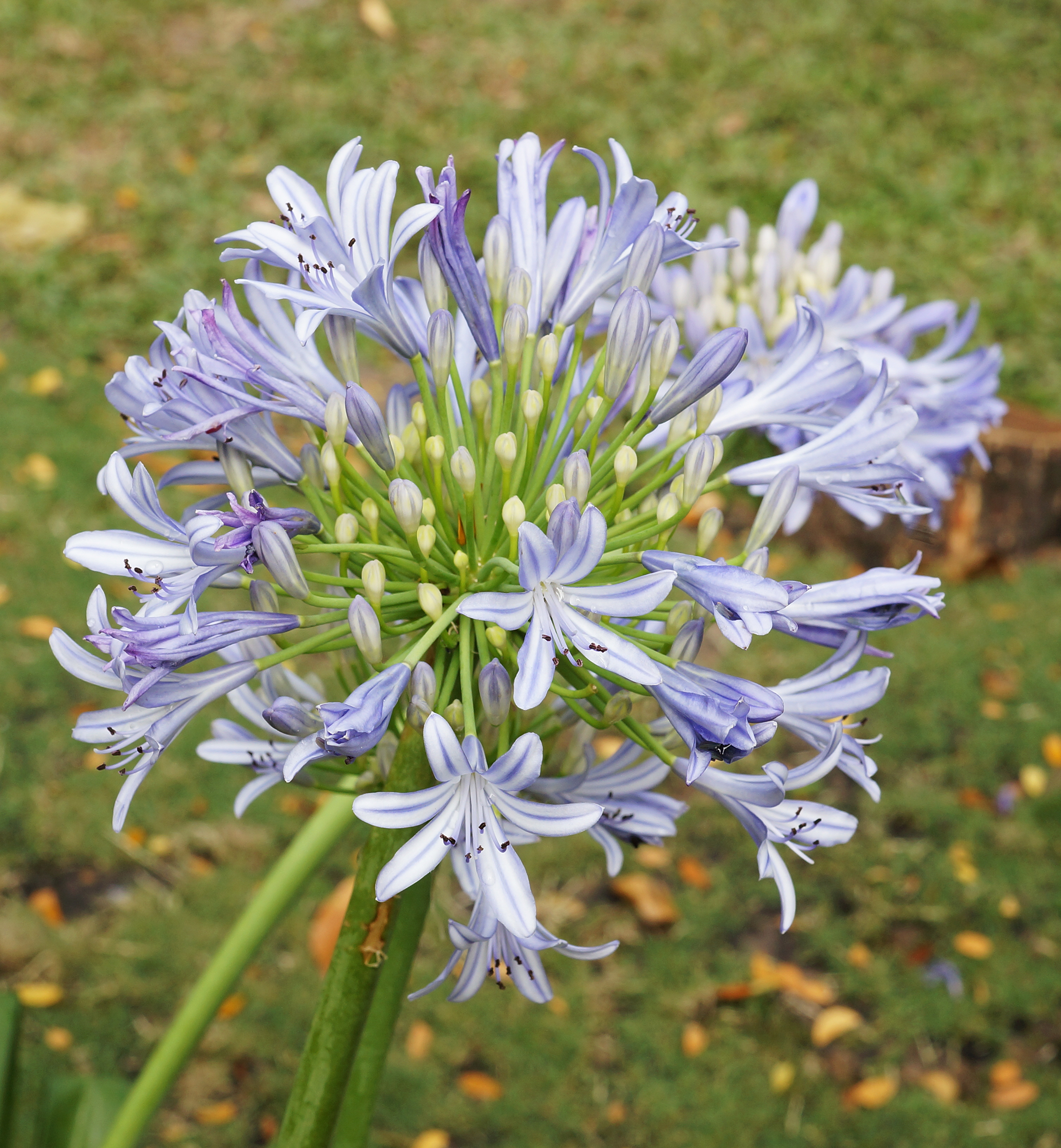 African lily